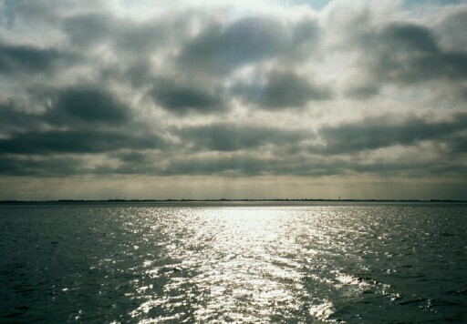 Light tunnel on the North Sea